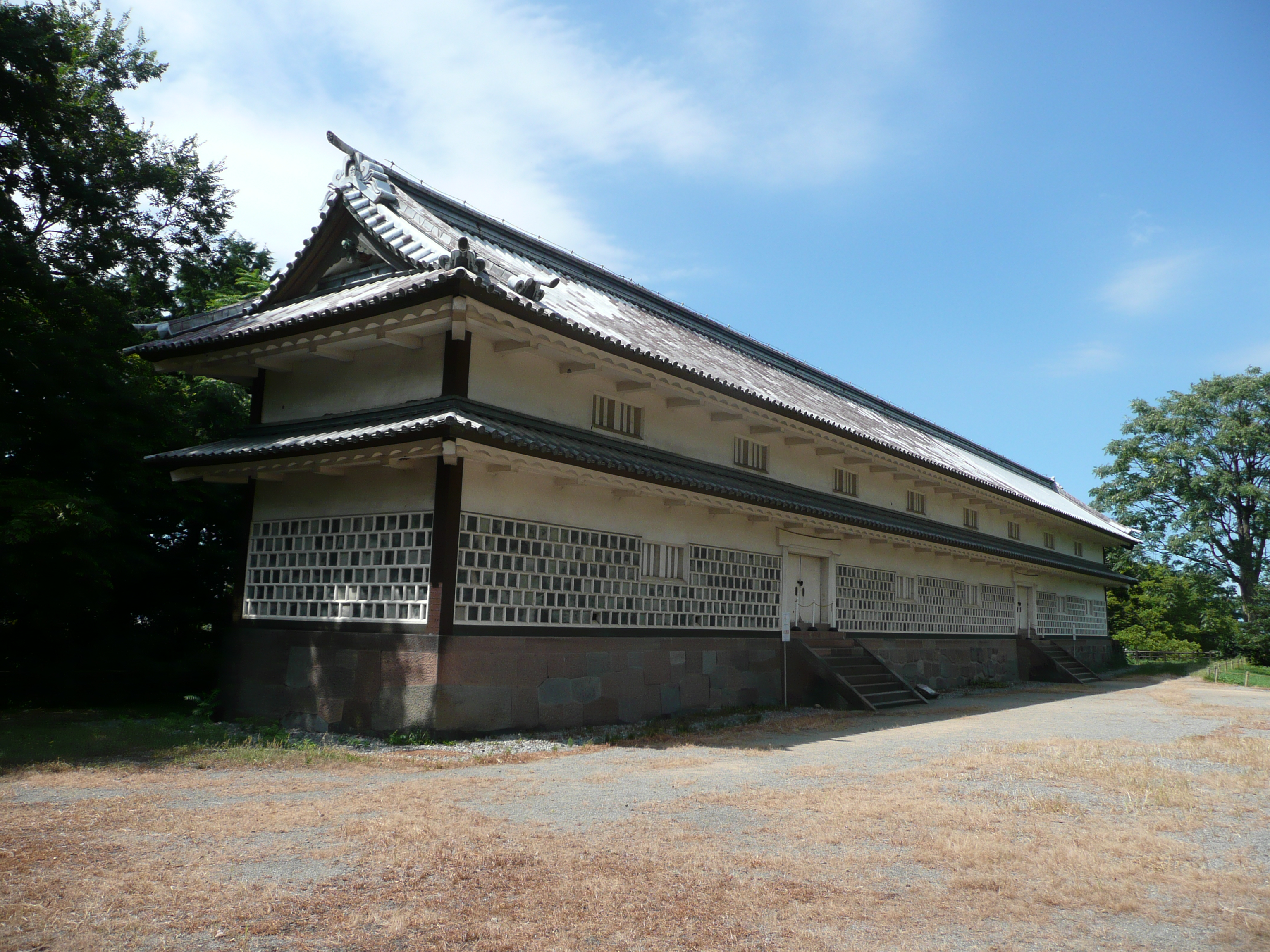 Sanjikken Nagaya storehouse, Kanazawa Castle